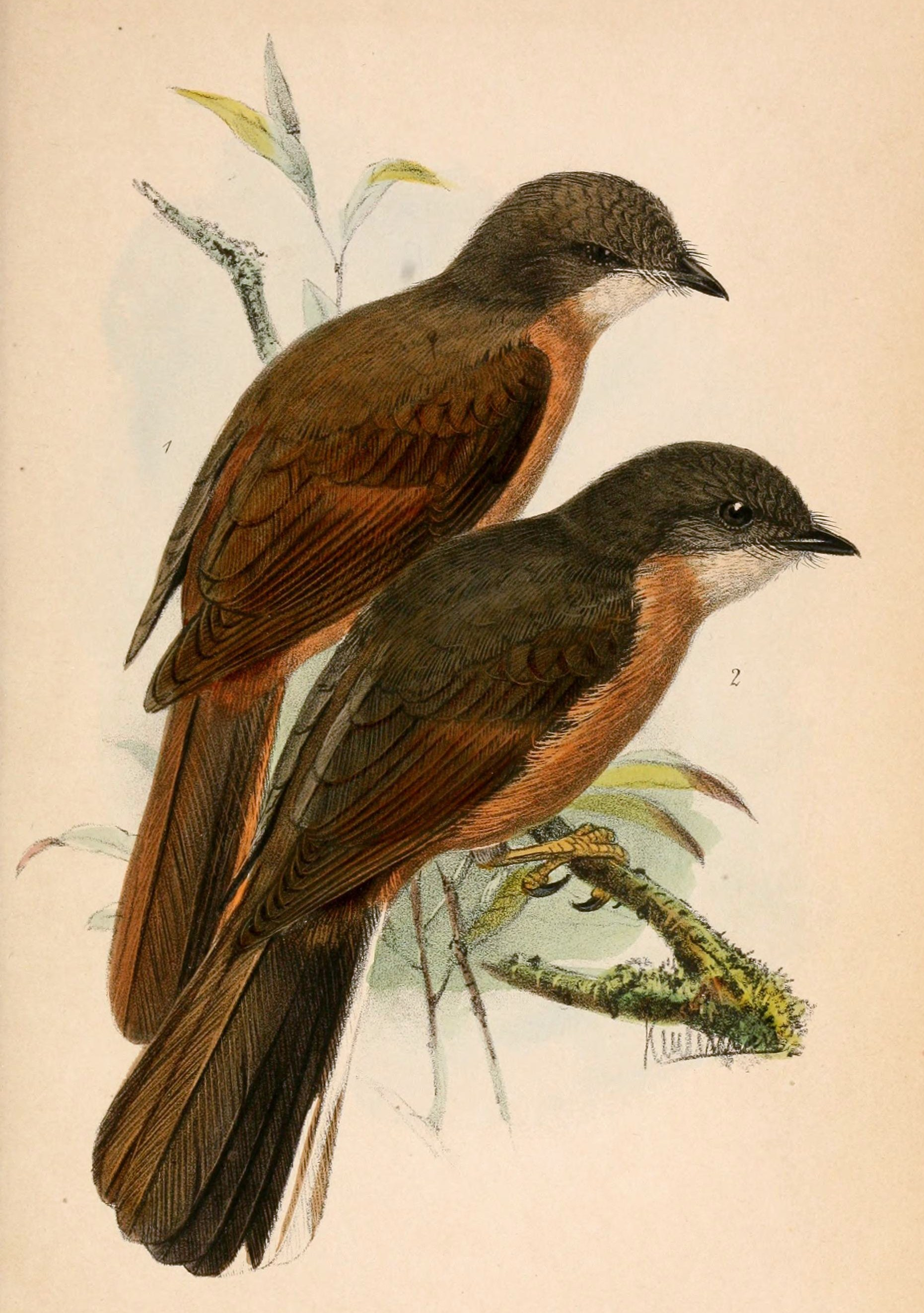 1 « Cassinia rubicunda » = Stizorhina fraseri rubicunda (subspecies of Fraser's Rufous Thrush) 2 « Cassinia finschi » = Stizorhina finschi (Finsch's Rufous Thrush)